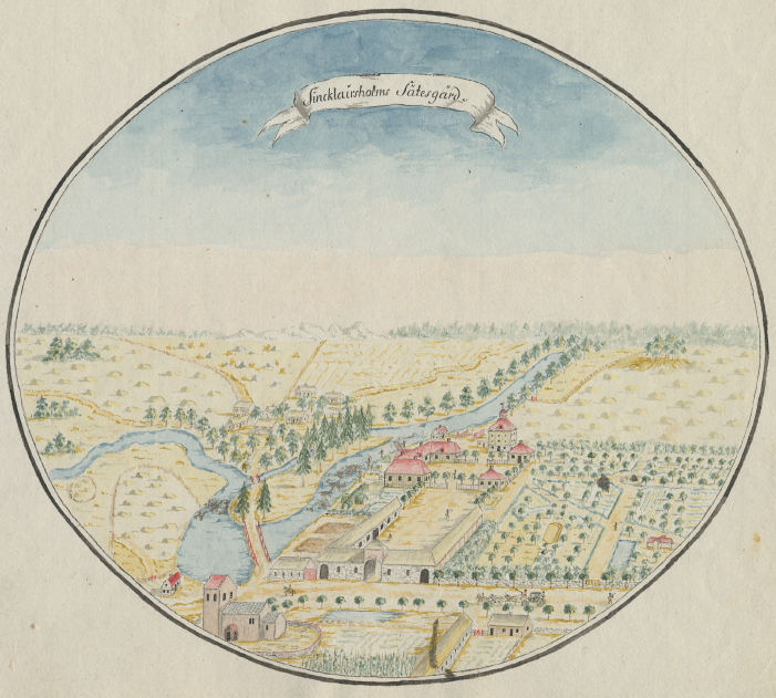 Sinclairsholm Manor (Scania, Sweden) circa 1780